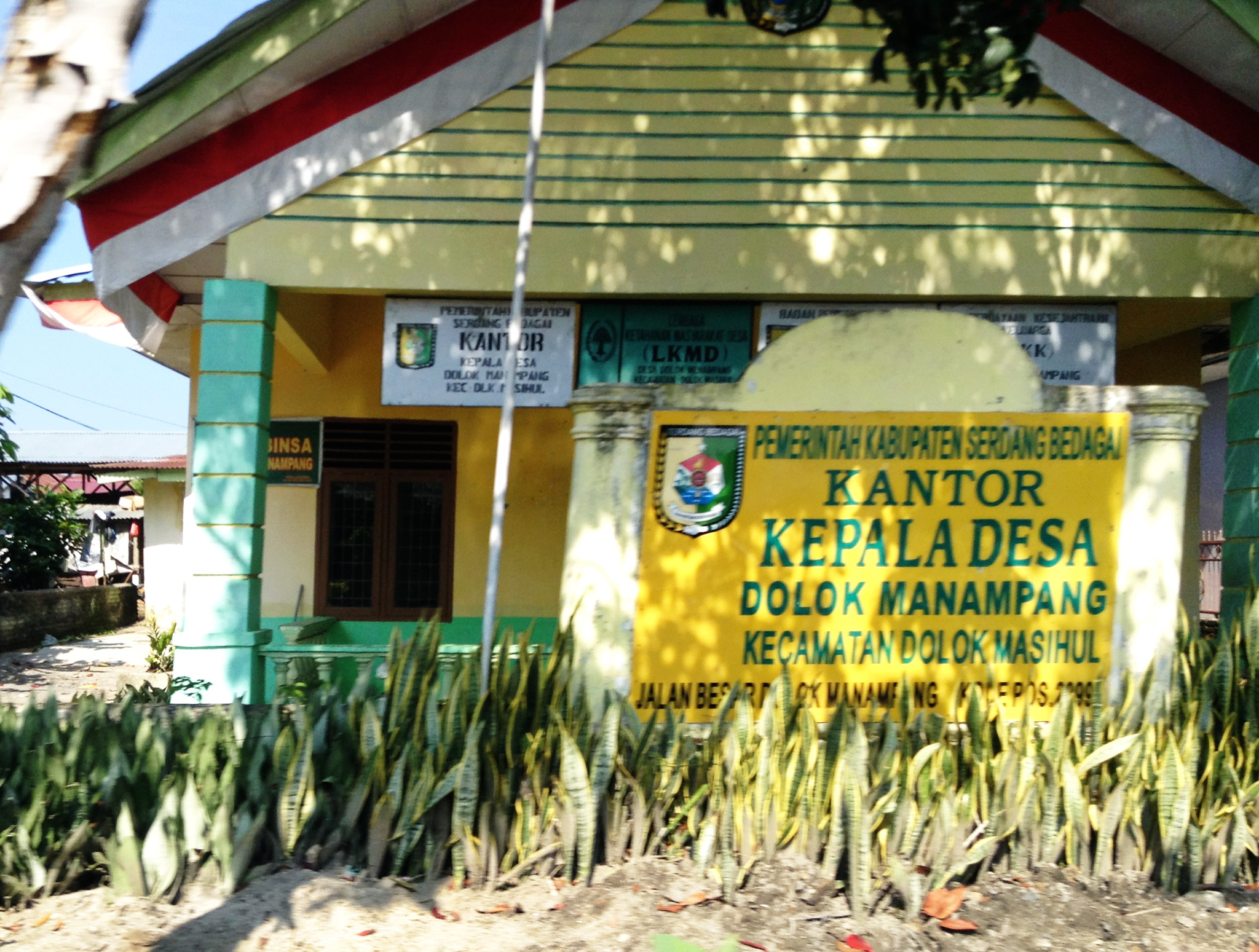 Office village of Dolok Manampang, Dolok Masihul, Serdang Bedagai, North Sumatra, Indonesia.